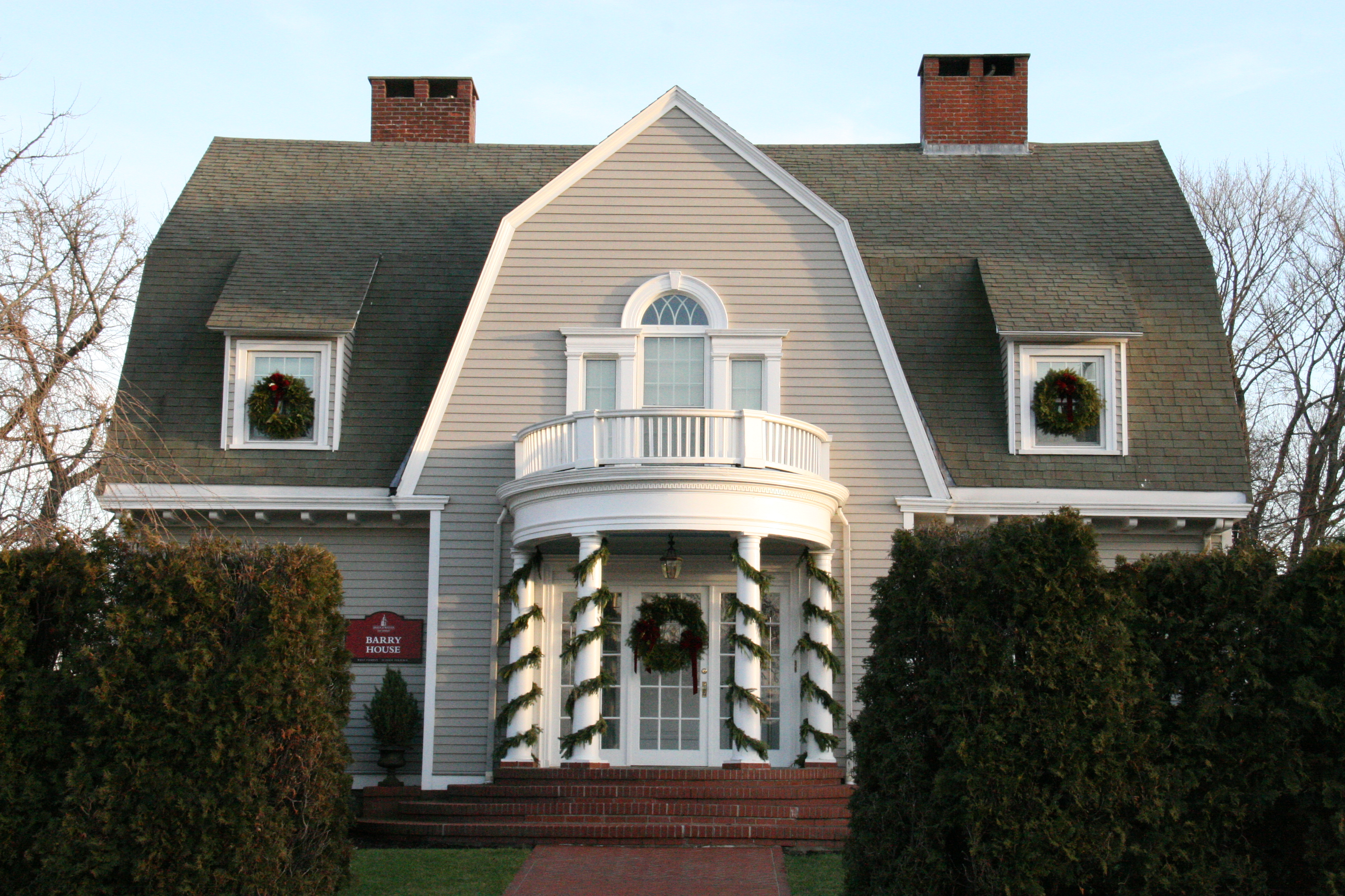 Bridgewater University 29 Park Terrace Bridgewater Ma.